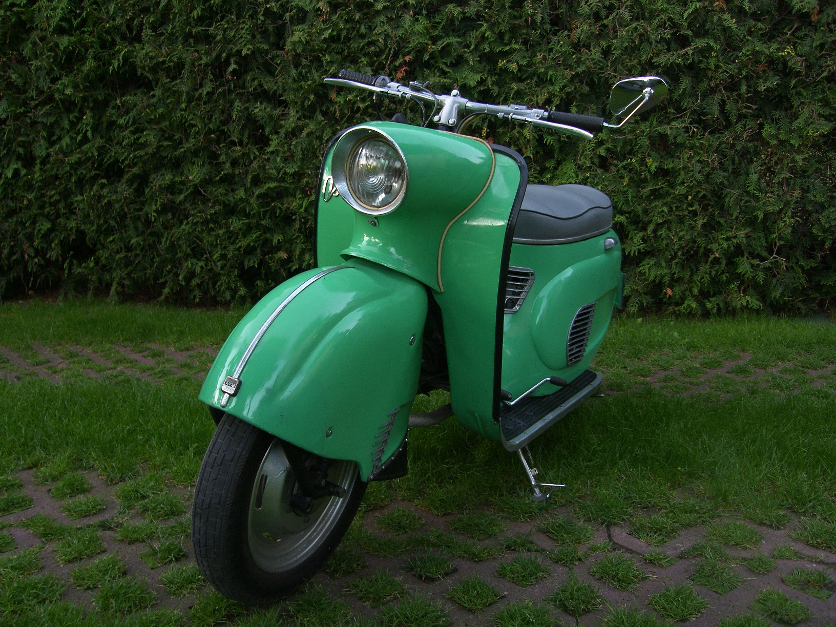 WFM Osa M51 scooter.